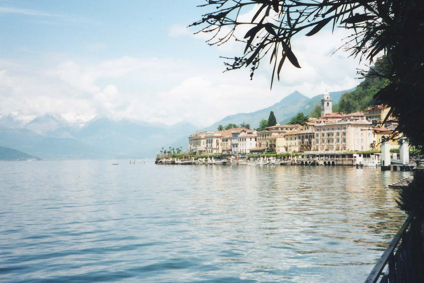 View of Bellagio and Lake Como